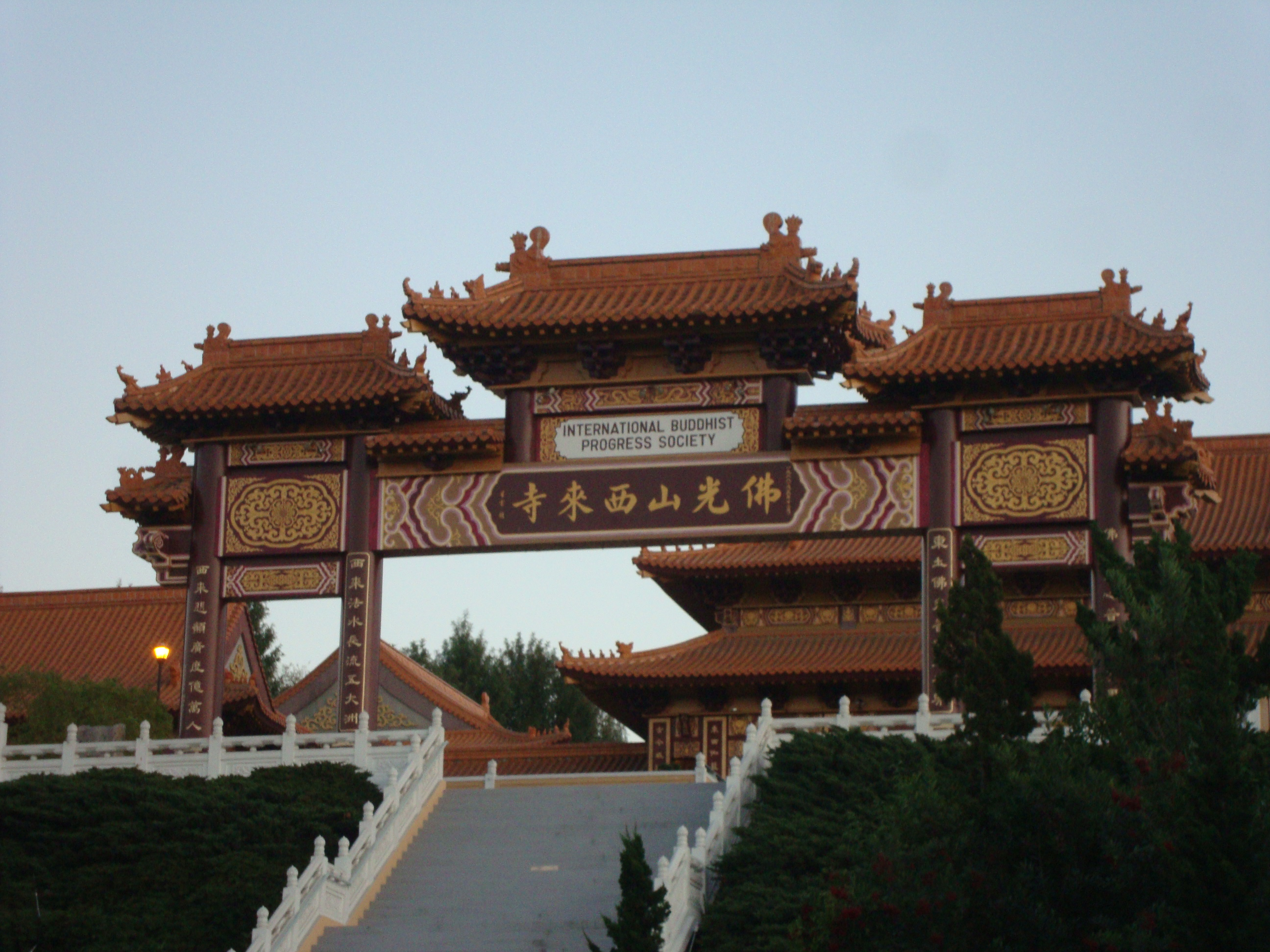 Mountain Gate of Hsi Lai Temple. In the San Gabriel Valley of Southern California.